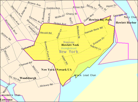 U.S. Census 2000 reference map for Hewlett Neck, New York